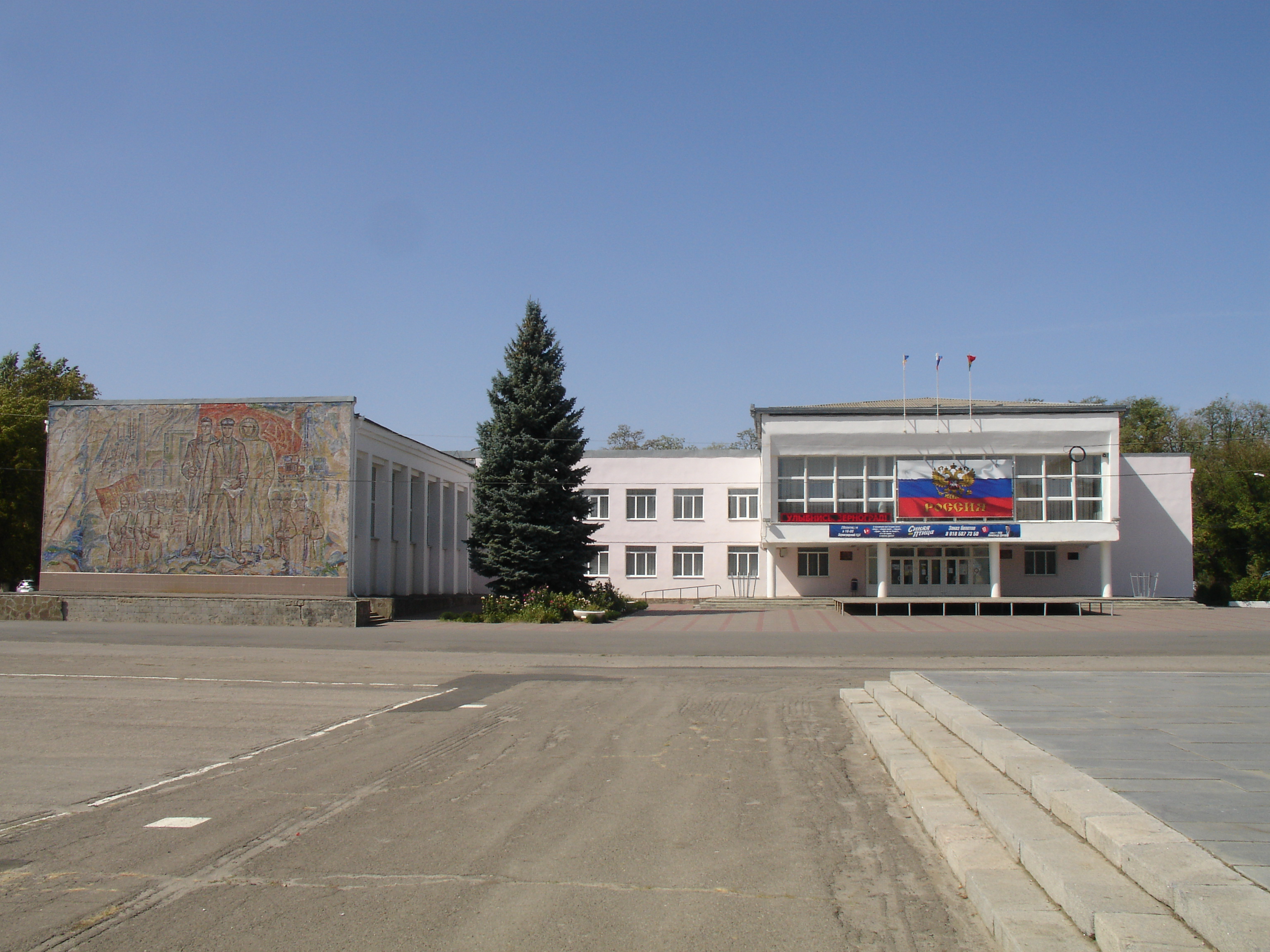 Palace of Culture, Zernograd, Rostovskaya oblast, Russia